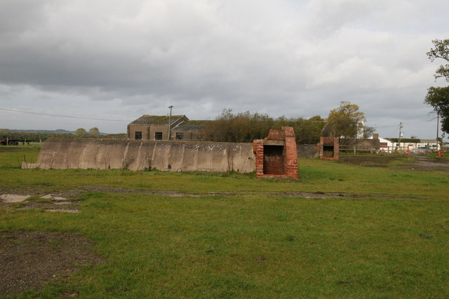 Calveley Airfield Old Buildings on Calveley Airfield ( is now the most complete World War 2 airfield in Cheshire and the only one with a surviving Watch Office.